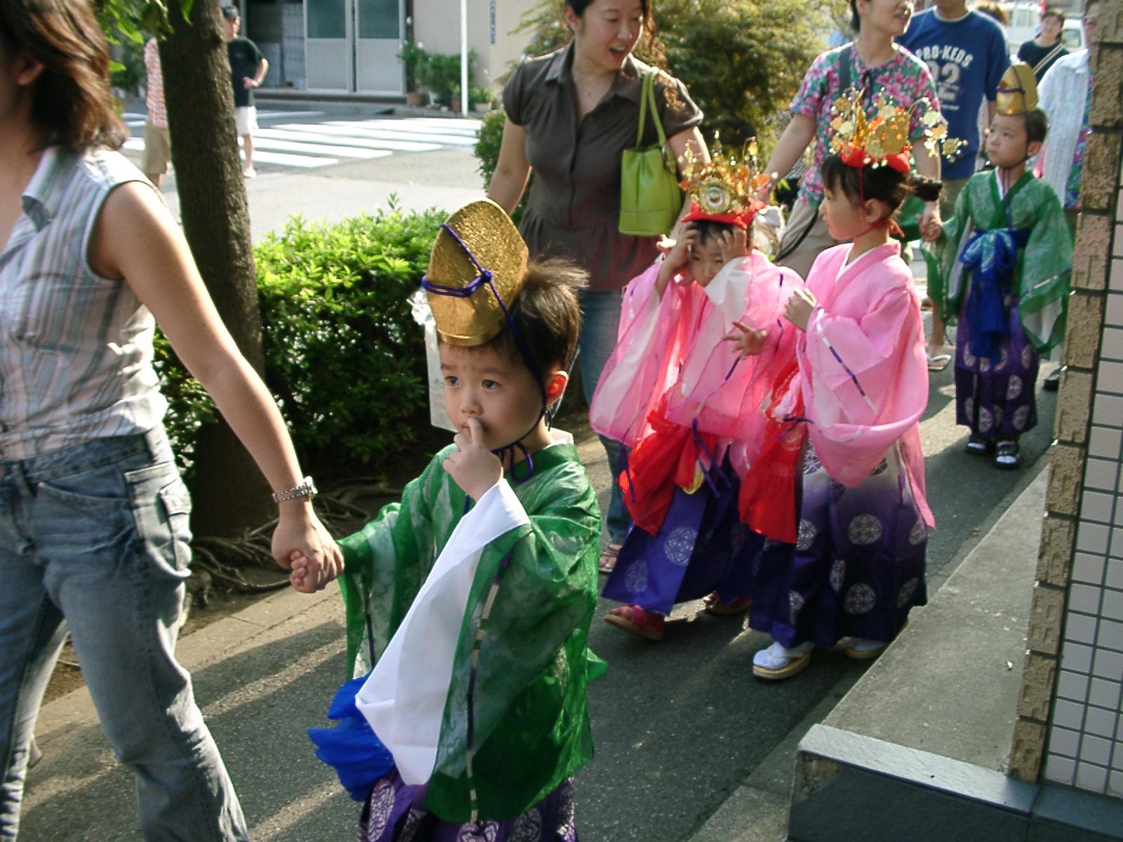 Chigo((rich cosmetized and florid festival kimono children))